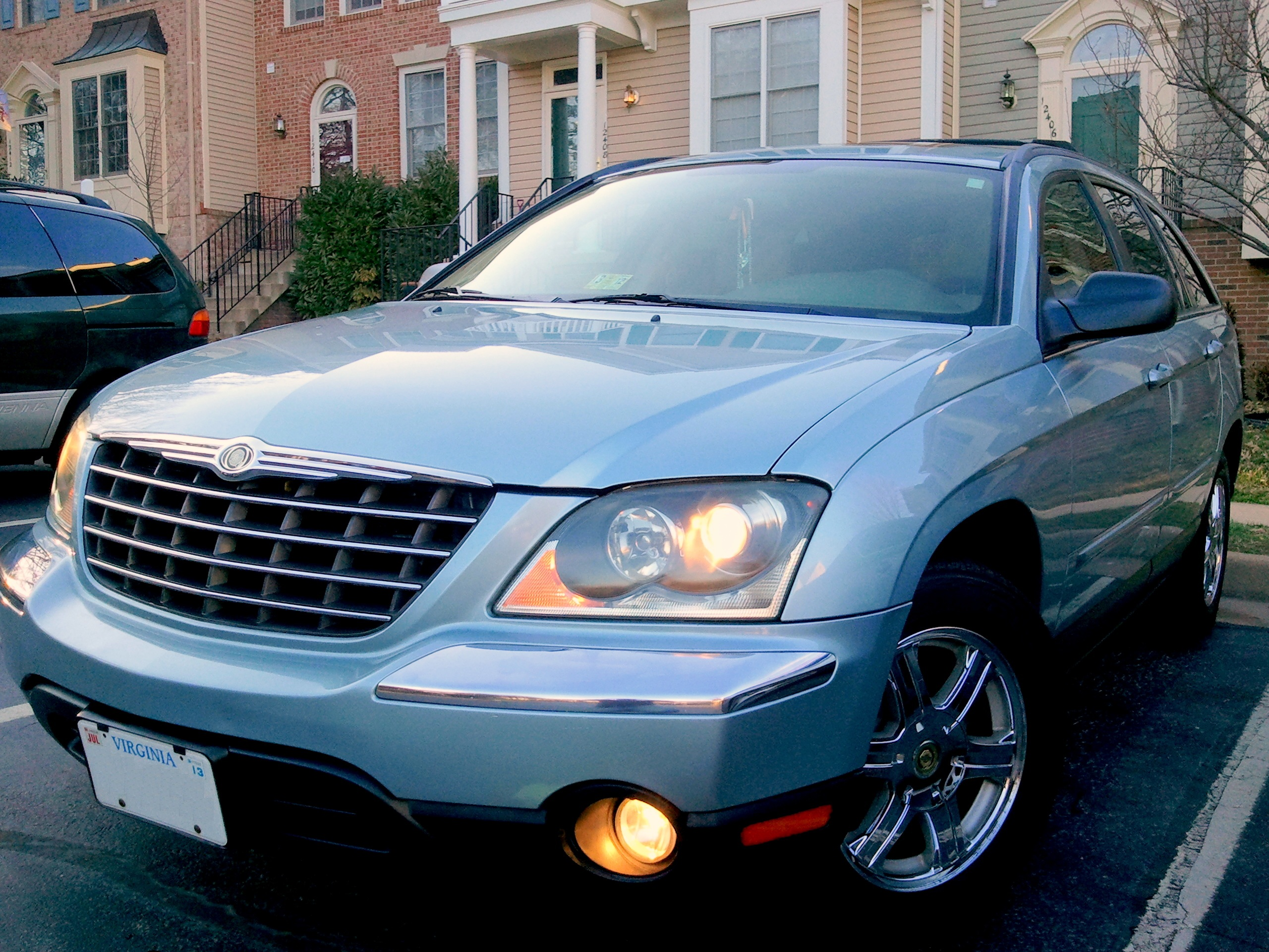 A clean example of the 2004-2006 (pre-facelift) Chrysler Pacifica.